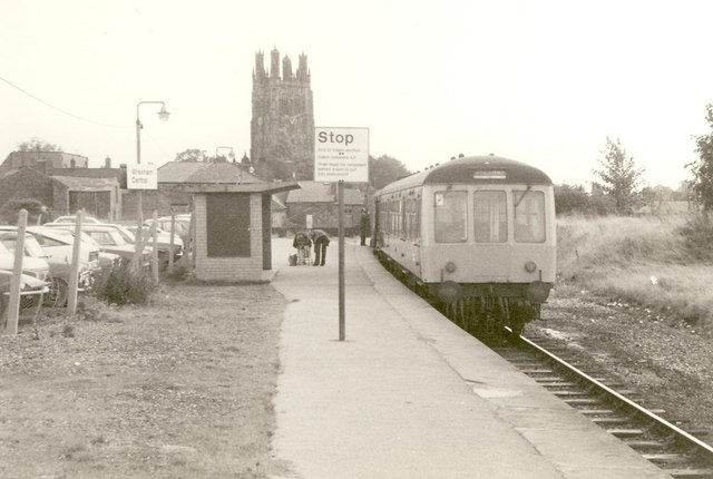 Wrexham Central railway station Original description: Wrexham Central station Minimal facilities offered in 1977 at the end of the branch from Bidston. Every train ignored the 'stop' sign to halt closer the shelter!